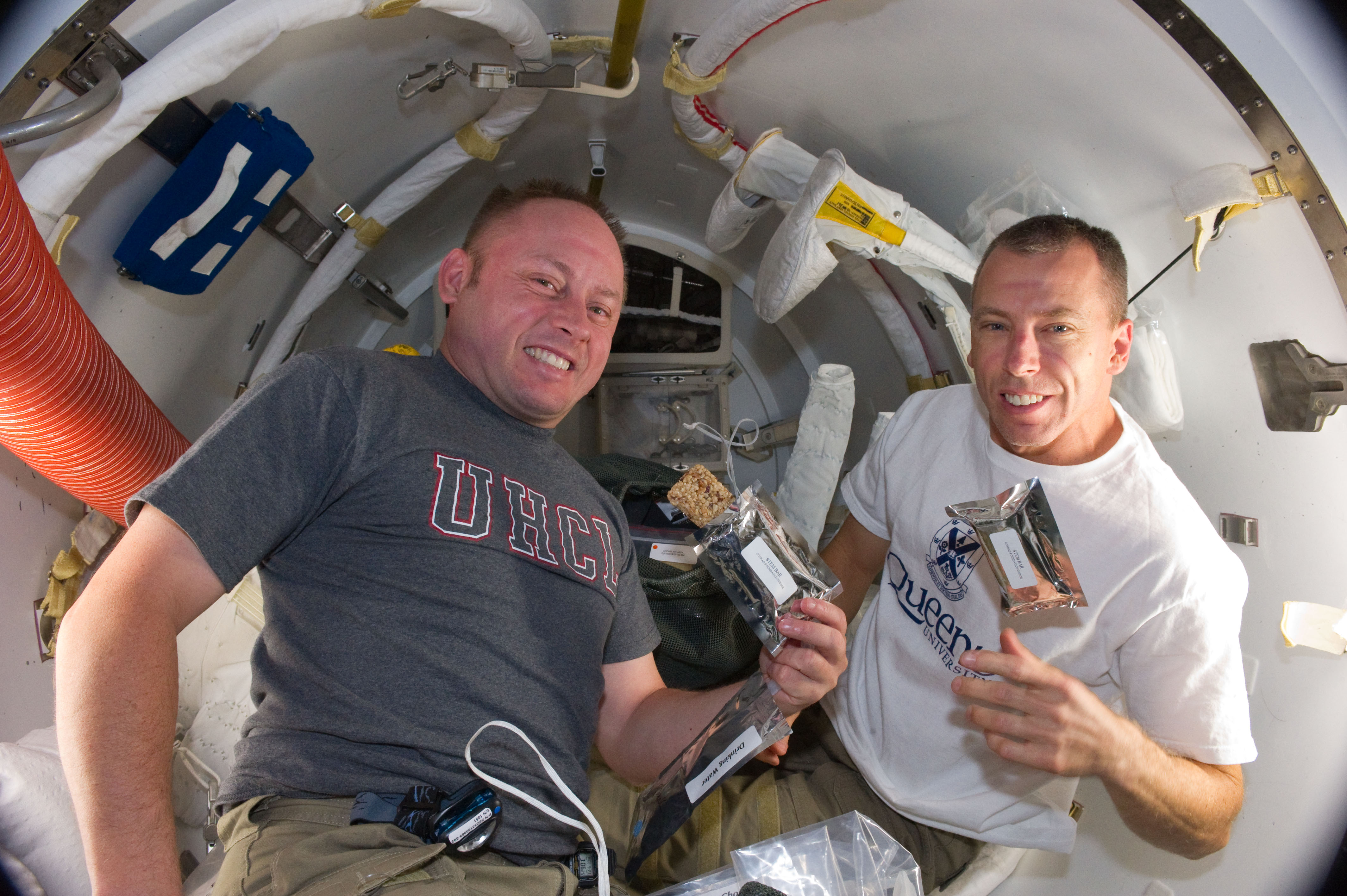 Michael Fincke (left) and Andrew Feustel, both STS-134 mission specialists, eat STEM bars for breakfast snacks onboard the International Space Station Original description: A short time before they donned their Extravehicular Mobility Unit spacesuits, NASA astronauts Michael Fincke (left) and Andrew Feustel, both STS-134 mission specialists, ate breakfast snacks onboard the International Space Station (ISS). Once outside the orbiting complex, Fincke and Feustel coordinated their shared activity with NASA astronaut Greg Chamitoff (out of frame), who stayed in communication with the pair and with Mission Control Center in Houston from the shirt sleeve environment inside the ISS.